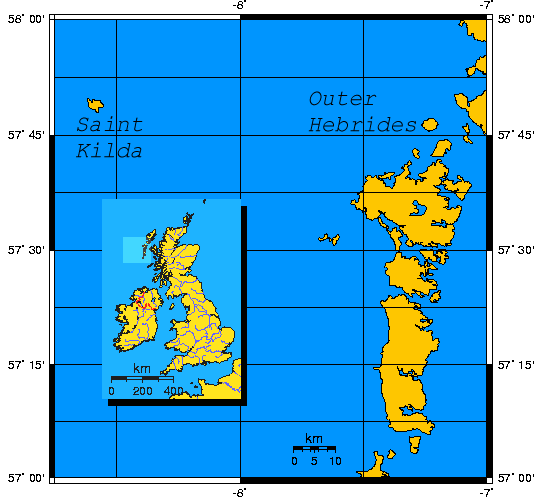 Saint Kilda. Created using PD and GFDL sources: US Government datasets, GMT software, and GIMP in Linux: GMT is an open source collection of ~60 tools for manipulating geographic and Cartesian data sets (including filtering, trend fitting, gridding, projecting, etc.) and producing Encapsulated PostScript File (EPS) illustrations ranging from simple x-y plots via contour maps to artificially illuminated surfaces and 3-D perspective views. GMT supports ~30 map projections and transformations and comes with support data such as coastlines, rivers, and political boundaries. GMT is developed and maintained by Paul Wessel and Walter H. F. Smith with help from a global set of volunteers, and is supported by the National Science Foundation. It is released under the GNU General Public License ... data from the US national data centers (NOAA, USGS, NGDC, NEIC) can be used with GMT, and they are all freely available from these centers and individuals via the internet ...